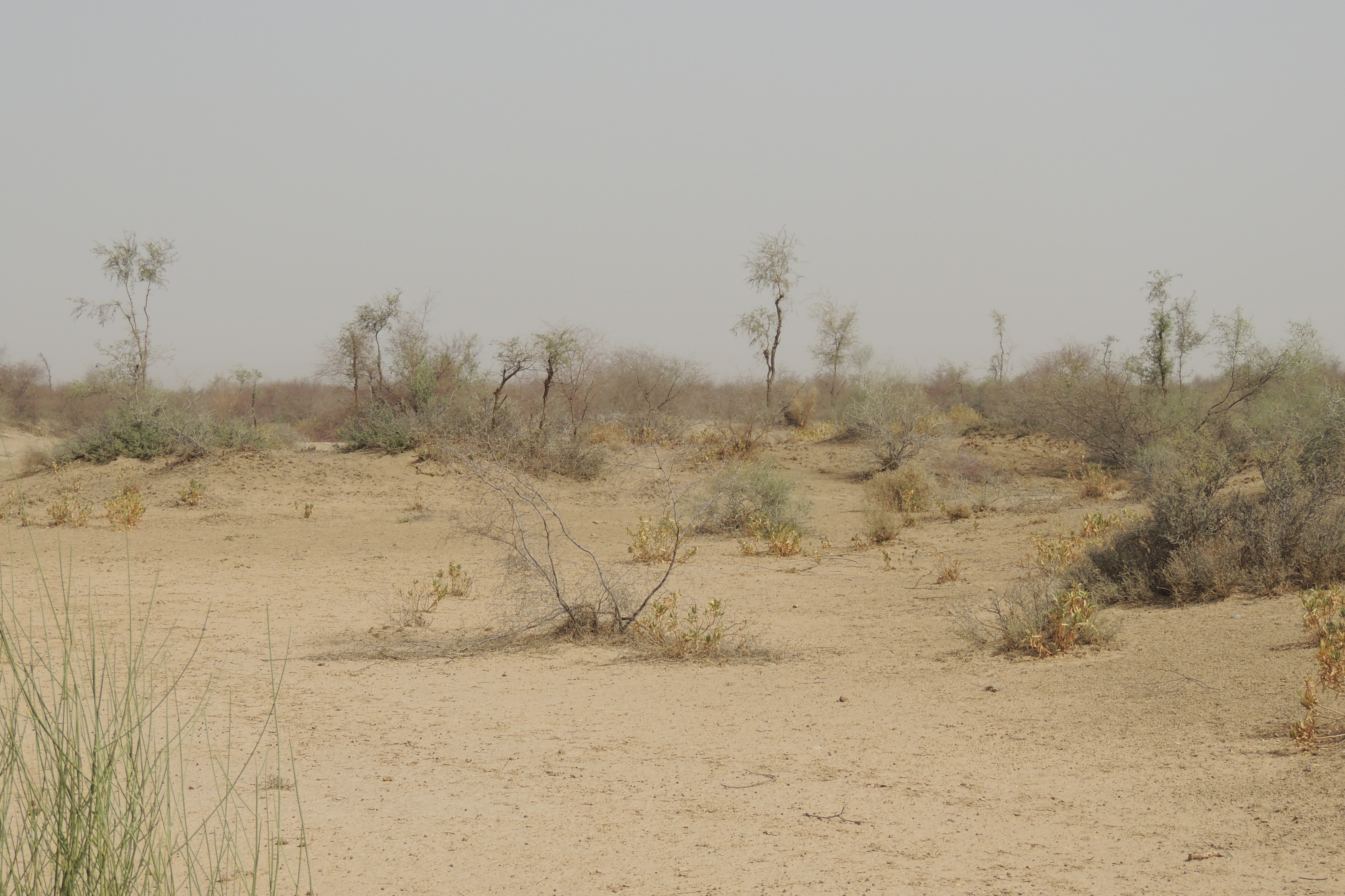 rohi cholistan